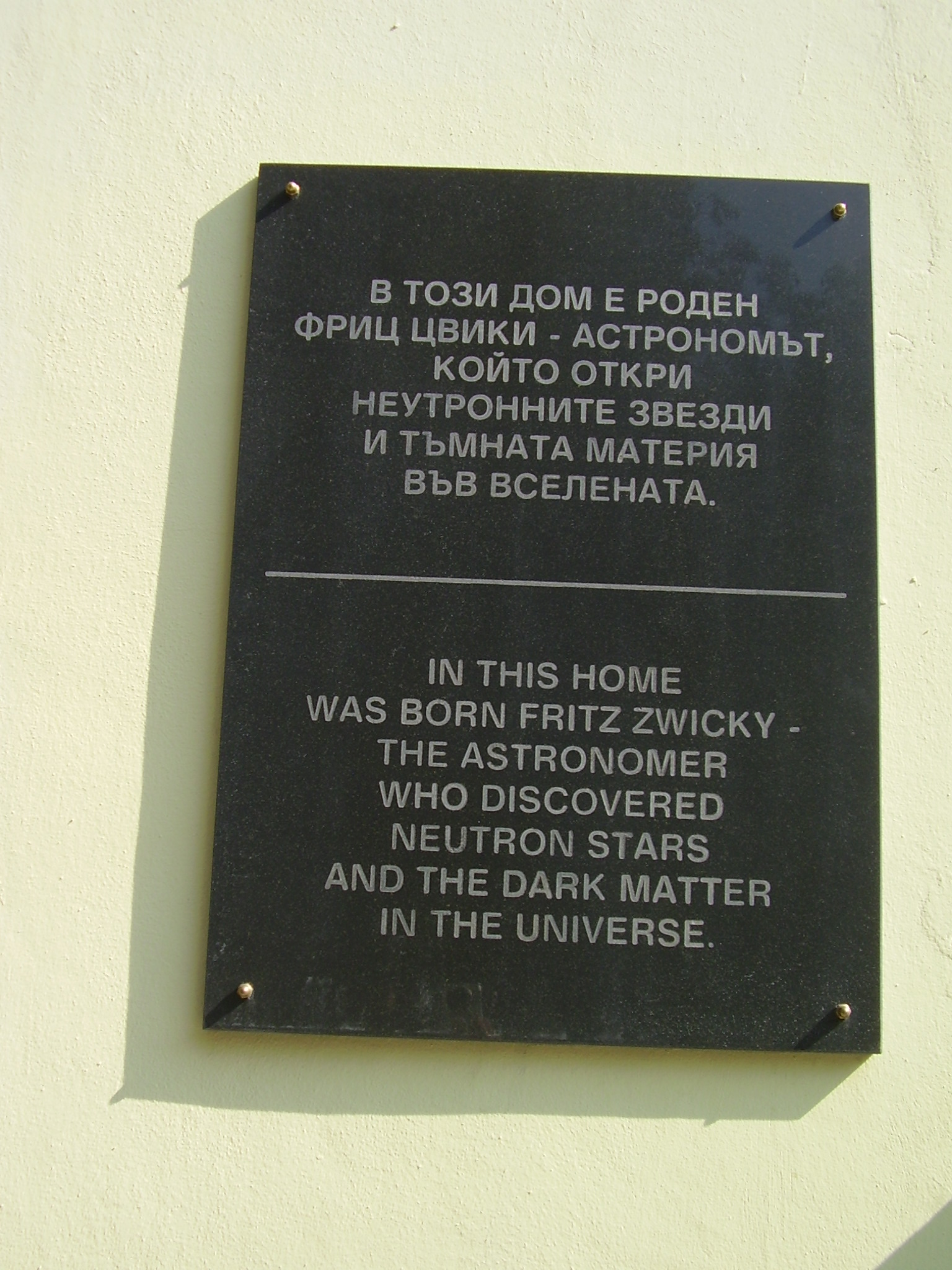 The memorial plaque on the house in Varna where was born the helveto-american astrophysicist Fritz Zwicky